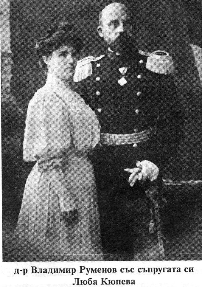 D-r Vladimir Rumenov with his wife Lyuba Kyupeva